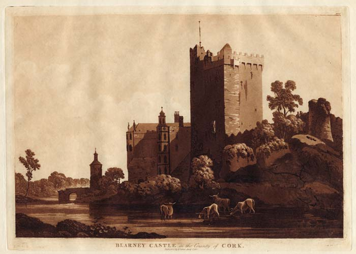 Blarney Castle in the County of Cork Aquatint 184 x 270 mm